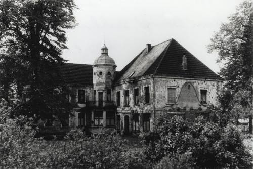 The Manor Bossigt, Lackhausen (Wesel), now North Rhine-Westphalia, the house where Konrad Duden (1829 - 1911), a German philologist, specialists in German studies, was born.